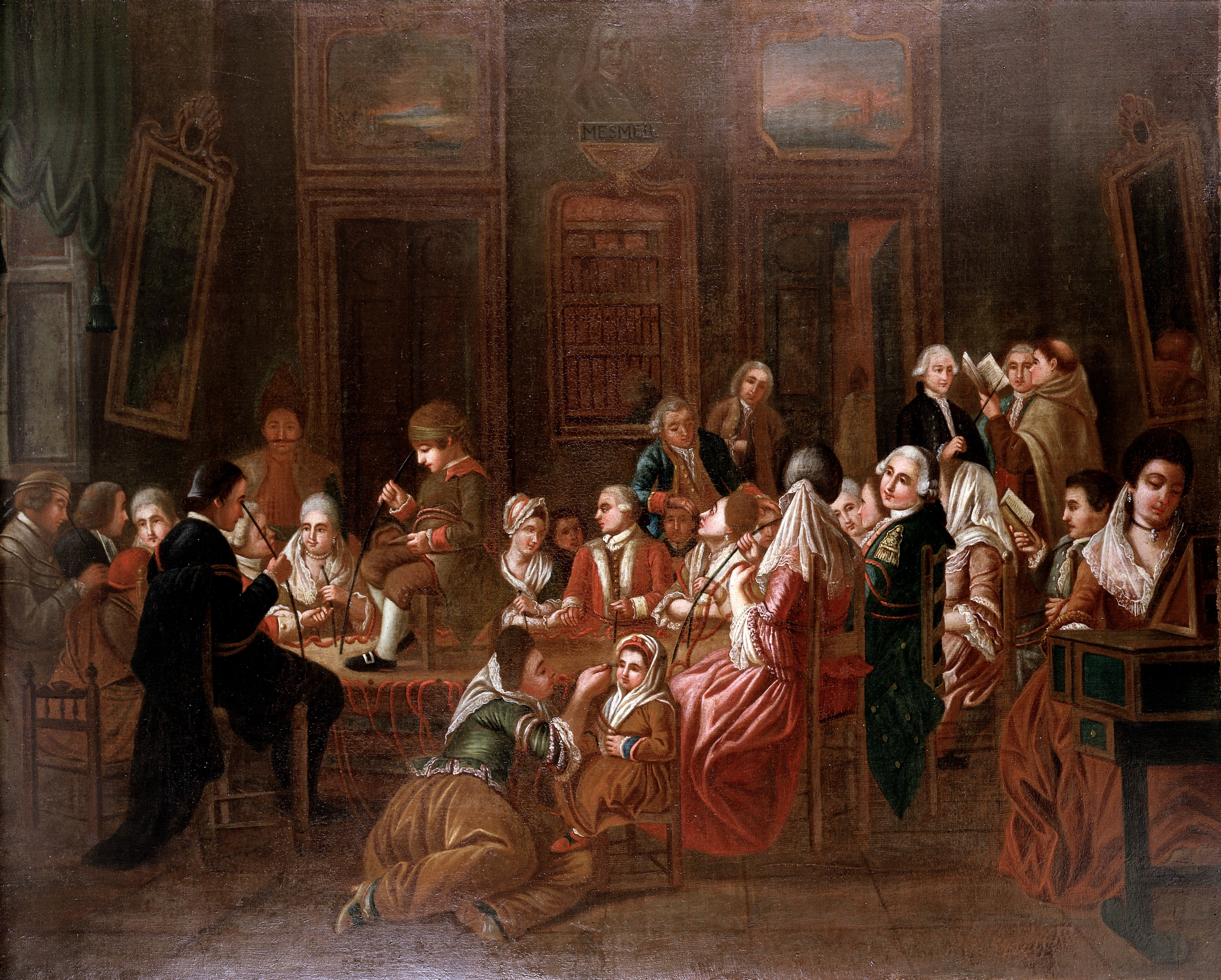 Mesmeric therapy. A group of mesmerised French patients. Oil painting by a French (?) painter, 1778/1784. Iconographic Collections Keywords: Mesmerism; Quackery; Maria Theresia von Paradis; Franz Anton Mesmer; Claude-Louis Desrais